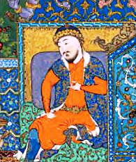 Painting of Jamshid in The Shahnama of Shah Tahmasp